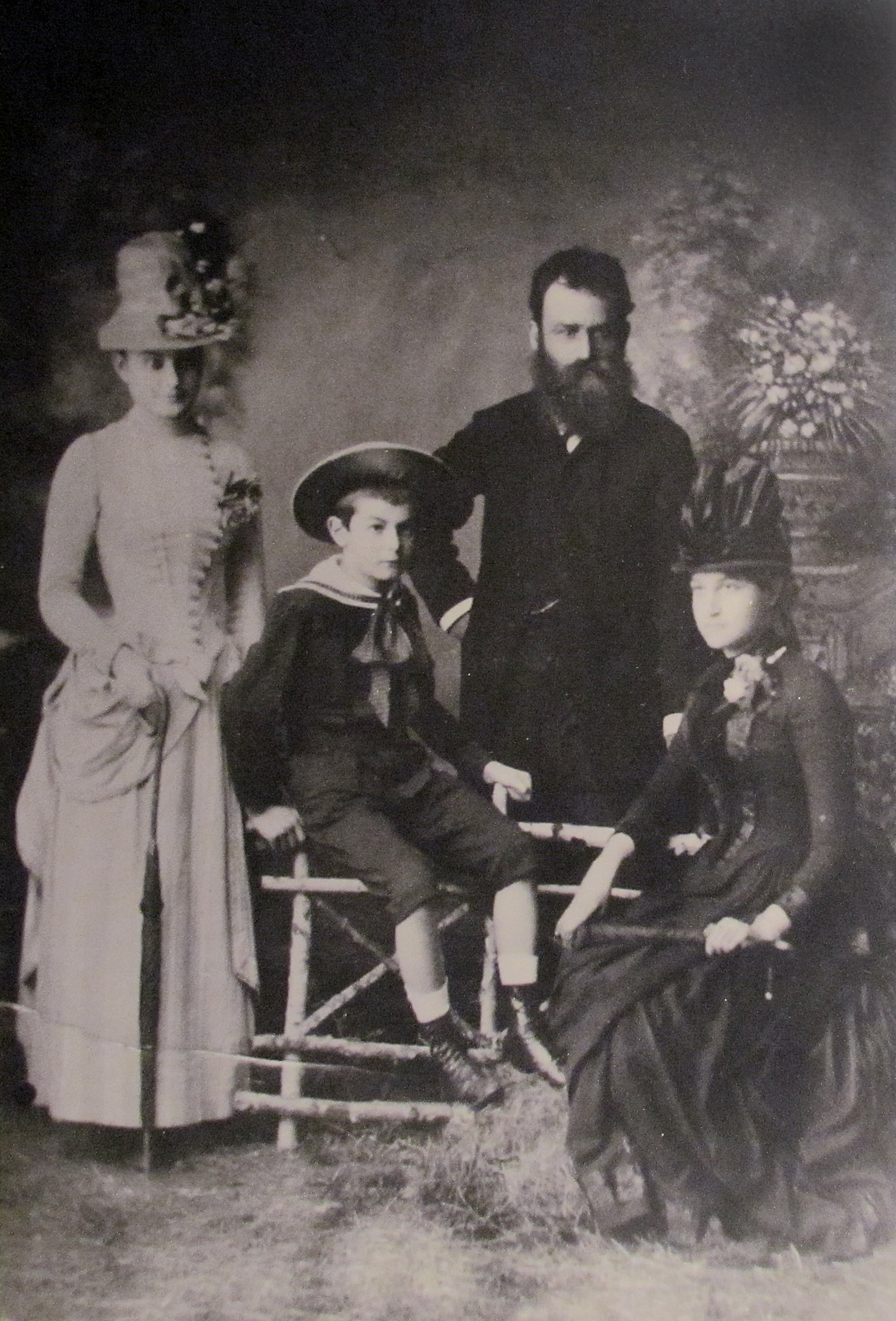 Aleksandar Obrenovic with Lazar Dokić in Florece, 1888